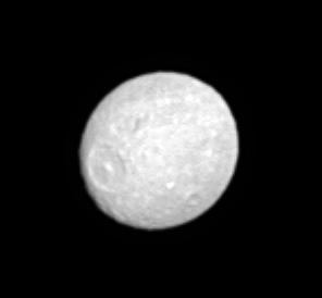 Saturn's moon Mimas, whose low density suggests that it is primarily composed of ice, has a flattened or oblate shape reminiscent of Saturn's (see PIA05389). The moon's equatorial dimension is nearly 10 percent larger than the polar one due to the satellite's rapid rotation. Mimas is 397 kilometres (247 miles) across. This view shows principally the leading hemisphere on Mimas. Mimas' largest crater, Herschel (130 kilometers, or 80 miles wide), is centered roughly on the equator and can be seen here. North on Mimas is toward upper left. The moon's oblateness is exaggerated by Cassini's viewing angle here -- the Sun-Mimas-spacecraft, or phase, angle was 5 degrees leaving a sliver of the moon's disk in shadow on the northwest limb. The image was taken in visible light with the Cassini spacecraft narrow-angle camera on May 20, en:2005, at a distance of approximately 916,000 kilometers (569,000 miles) from Mimas. Resolution in the original image was 5 kilometers (3 miles) per pixel. The image has been contrast-enhanced and magnified by a factor of two to aid visibility.